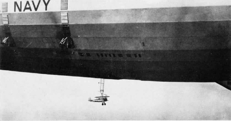 A Consolidated N2Y-1 (BuNo A8604) on the hook of the U.S. Navy airship USS Akron (ZRS-4) during flight tests near Naval Air Station Lakehurst, New Jersey (USA), on 4 May 1932.